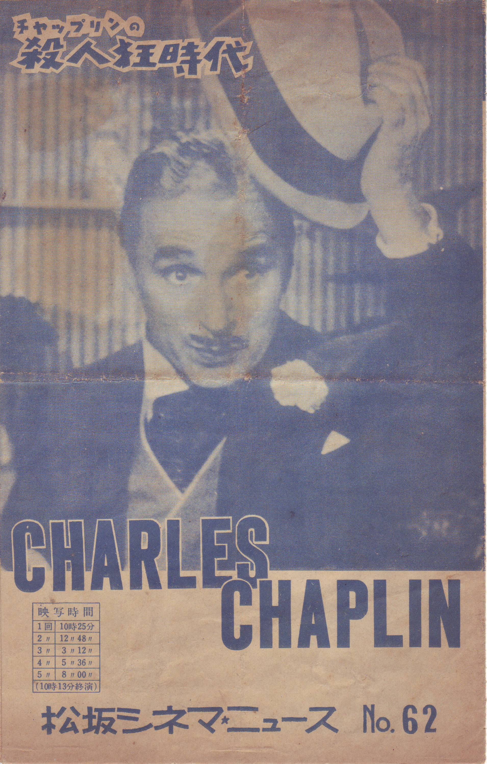 "Monsieur Verdoux" (Brochure of the first time in Japan at the time in 1952).